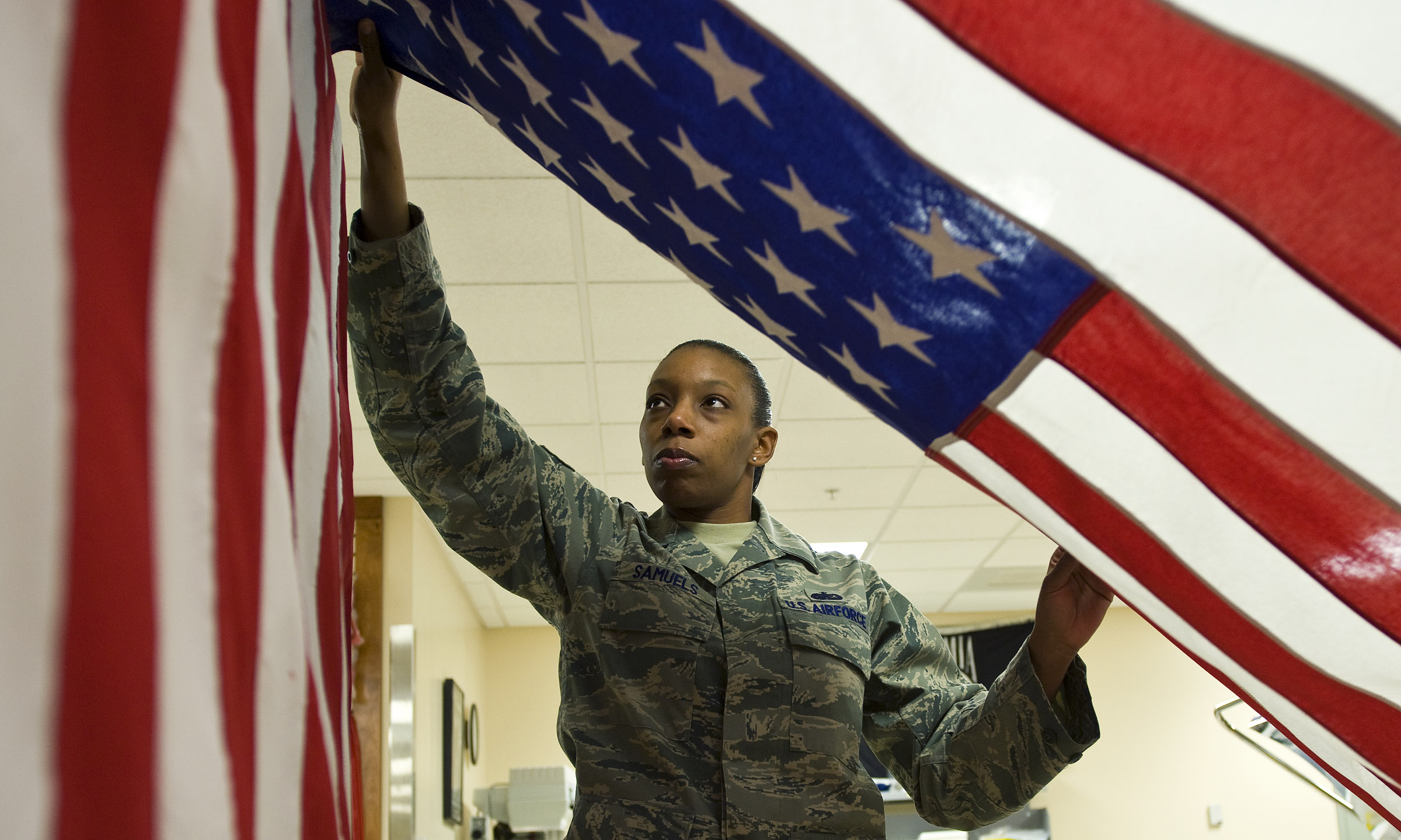 Original caption states, "Staff Sgt. Star Samuels hangs up a freshly pressed U.S. flag March 31 at the Charles C. Carson Center for Mortuary Affairs, Dover Air Force Base, Del. The flags will be placed over caskets during the dignified transfer of remains. The center is the Defense Department's largest joint-service mortuary facility and the only one in the continental United States. Sergeant Samuels is deployed from the 43rd Force Support Squadron, Pope Air Force Base, N.C."